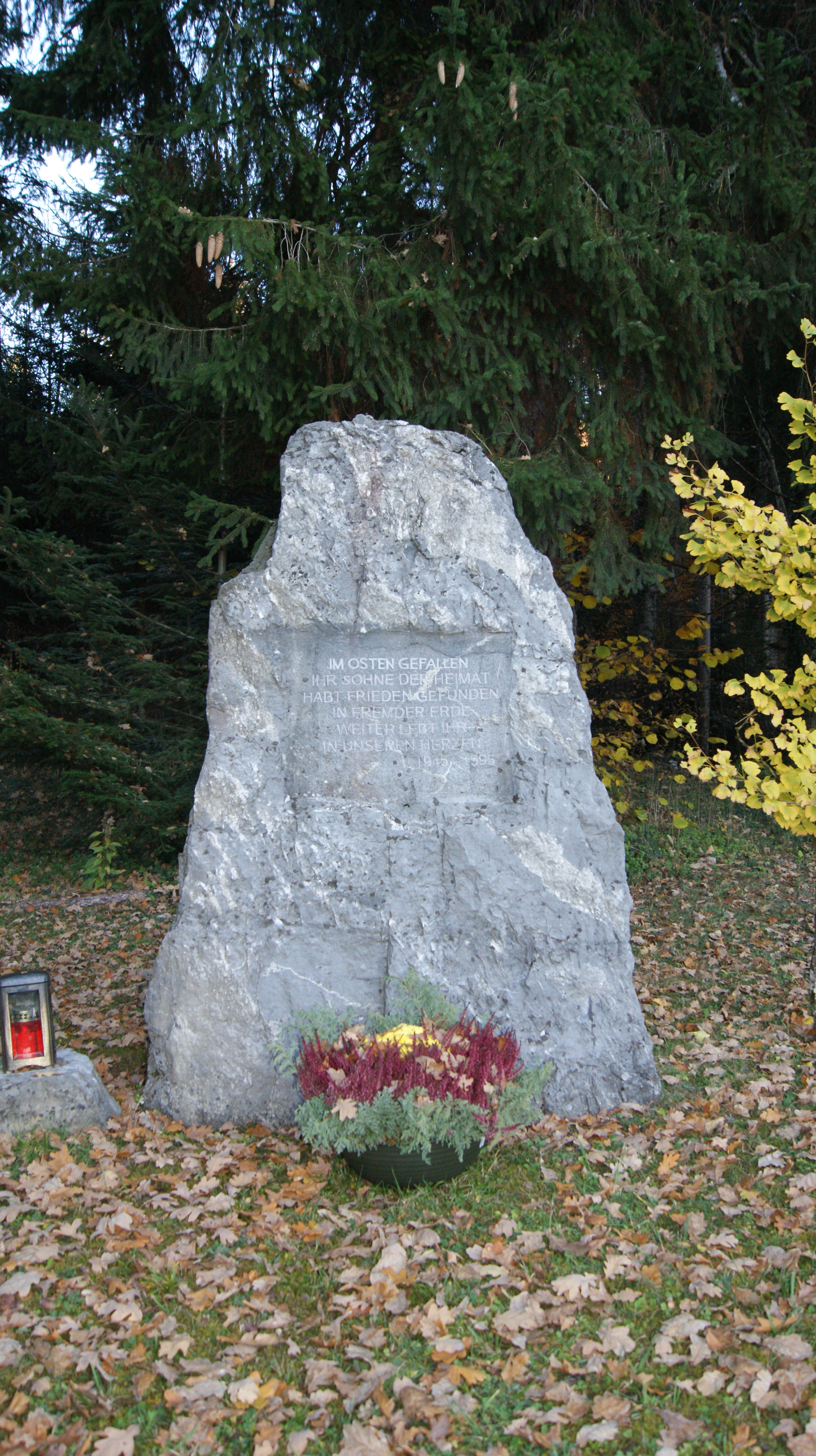 Cemetery and chapel Valduna in the municipality Rankweil in Vorarlberg, Austria. Memorial.